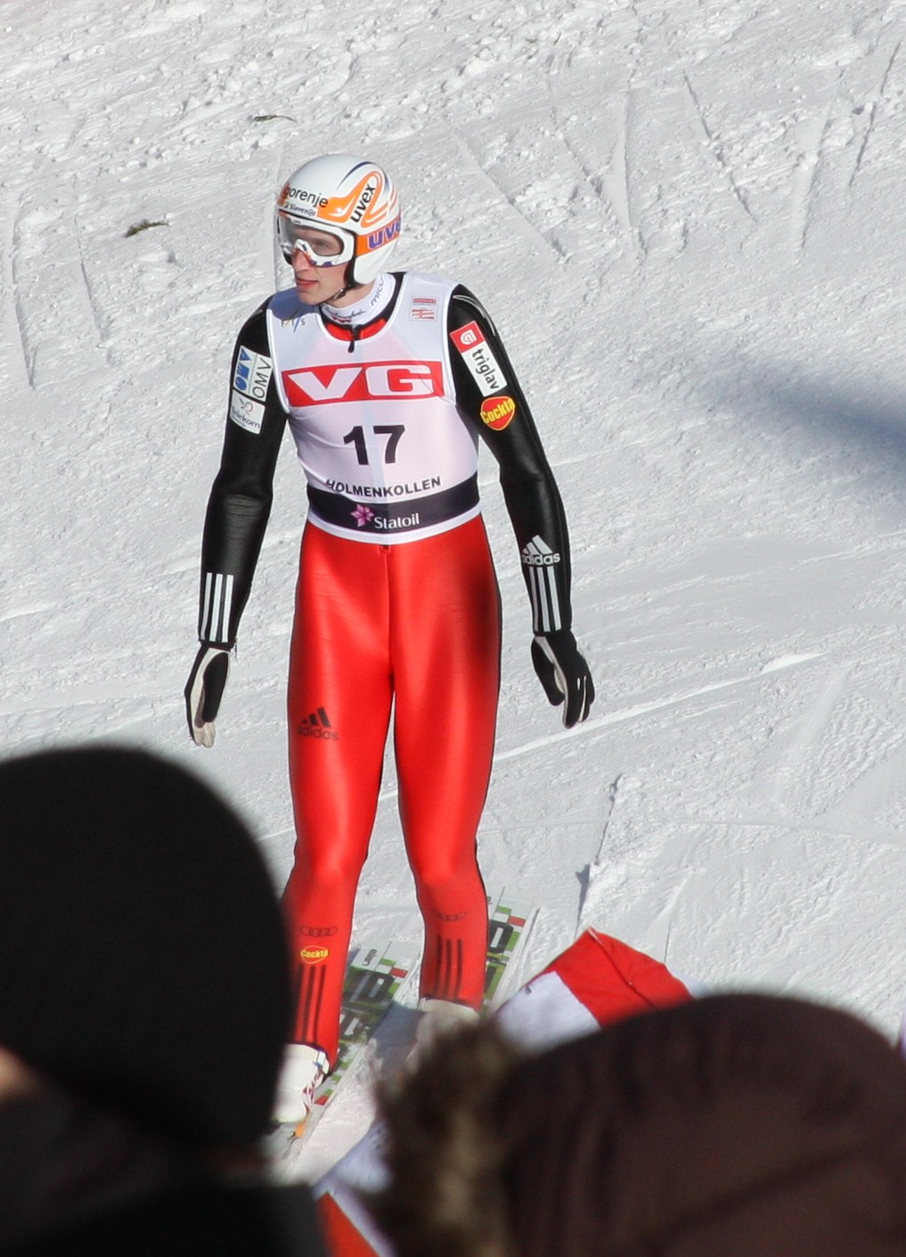 Mitja Meznar (SLO) in WC Oslo, Holmenkollen 14 march 2010